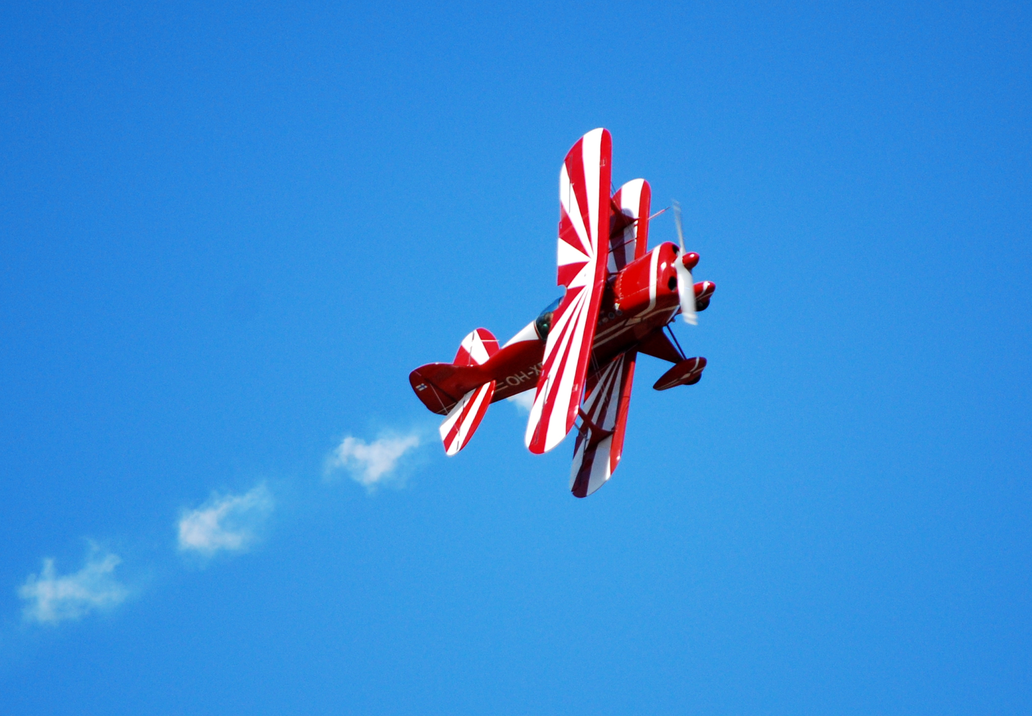 Pitts Special S-1 aircraft (OH-XPA) at Selänpää Airfield in Kouvola, Finland.